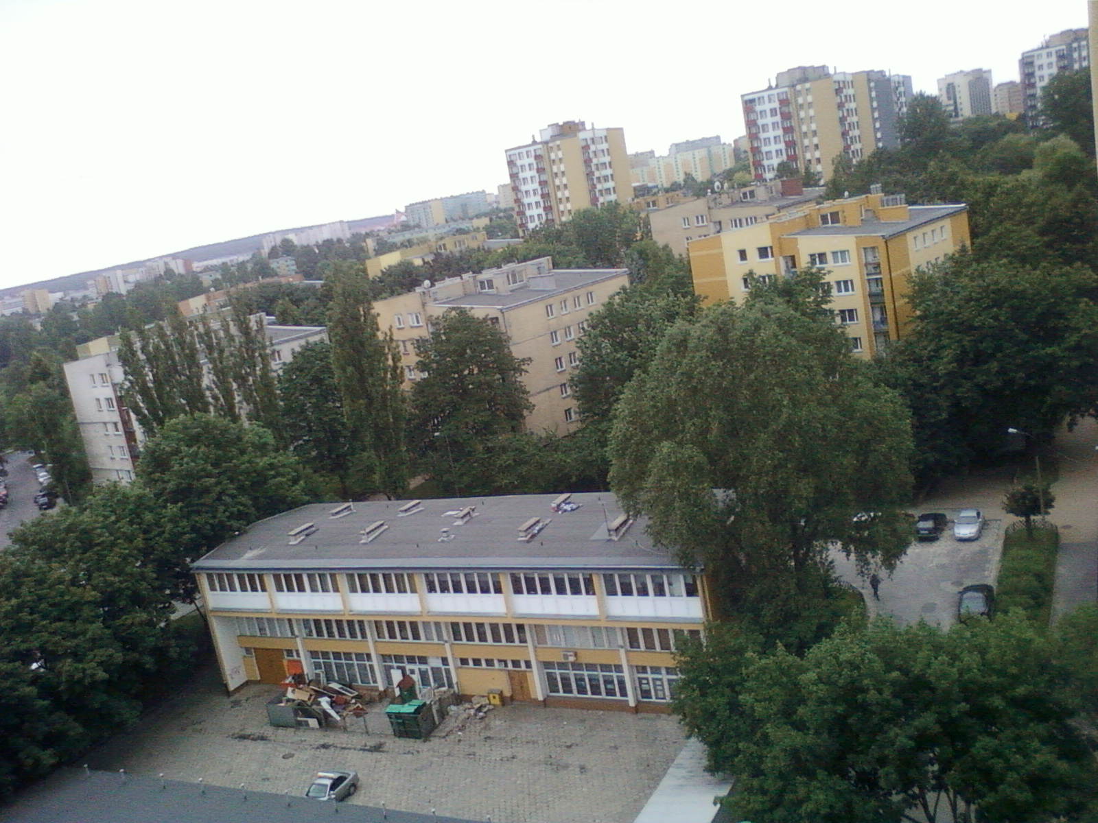 Osiedle Piastowskie in Lublin. View from the tower on the Bolesław Chrobry Street